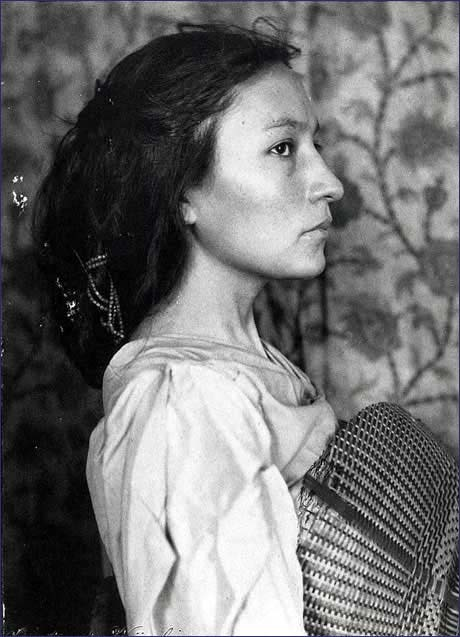 Writer, editor, translator, musician, educator, and political activist Zitkála-Šá, portrayed by Gertrude Käsebier.